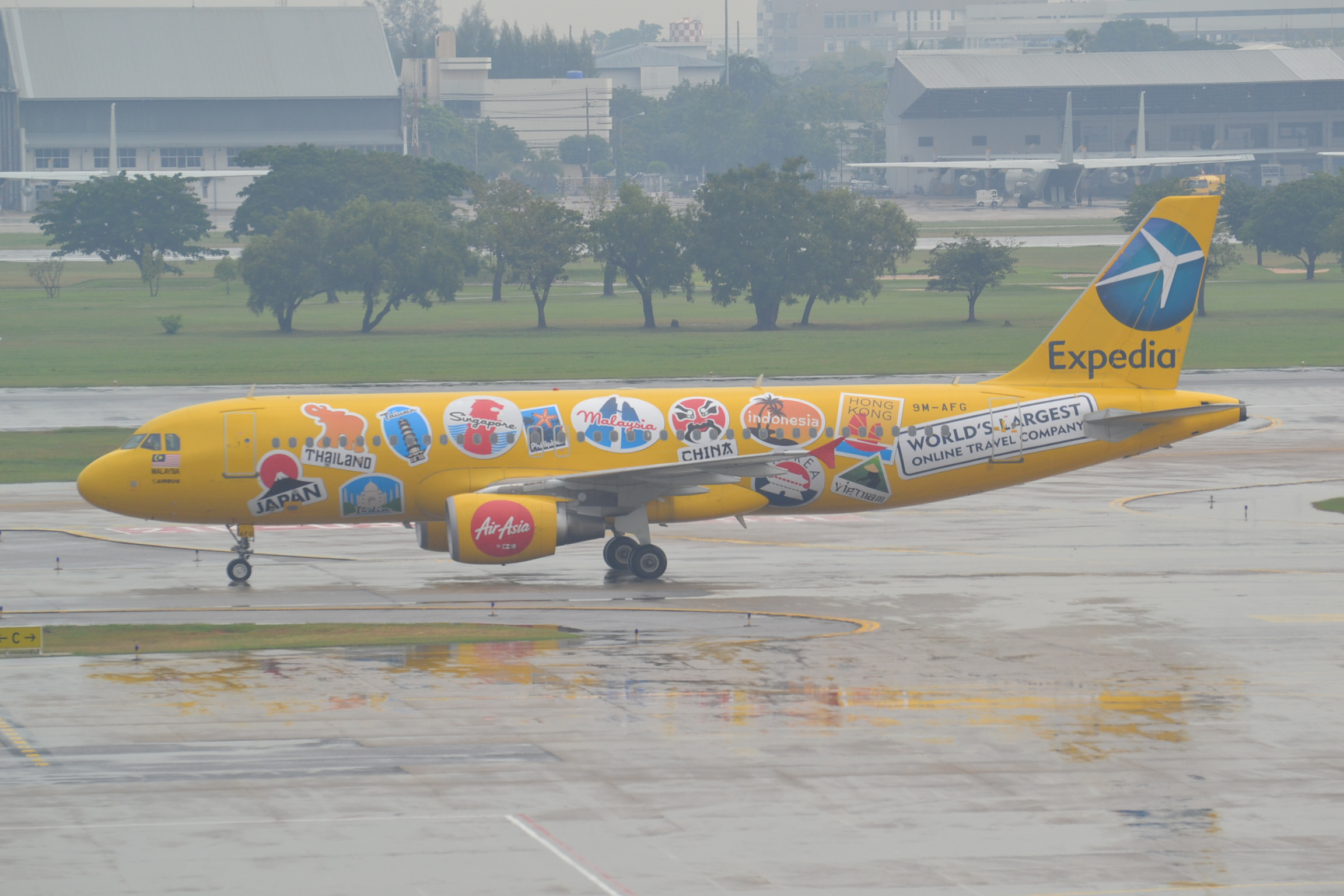 Airbus A320 of AirAsia in special Expedia clrs. at Bangkok Don Mueang-DMK 13/11/13.